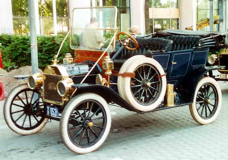 Ford Model T Touring 1911